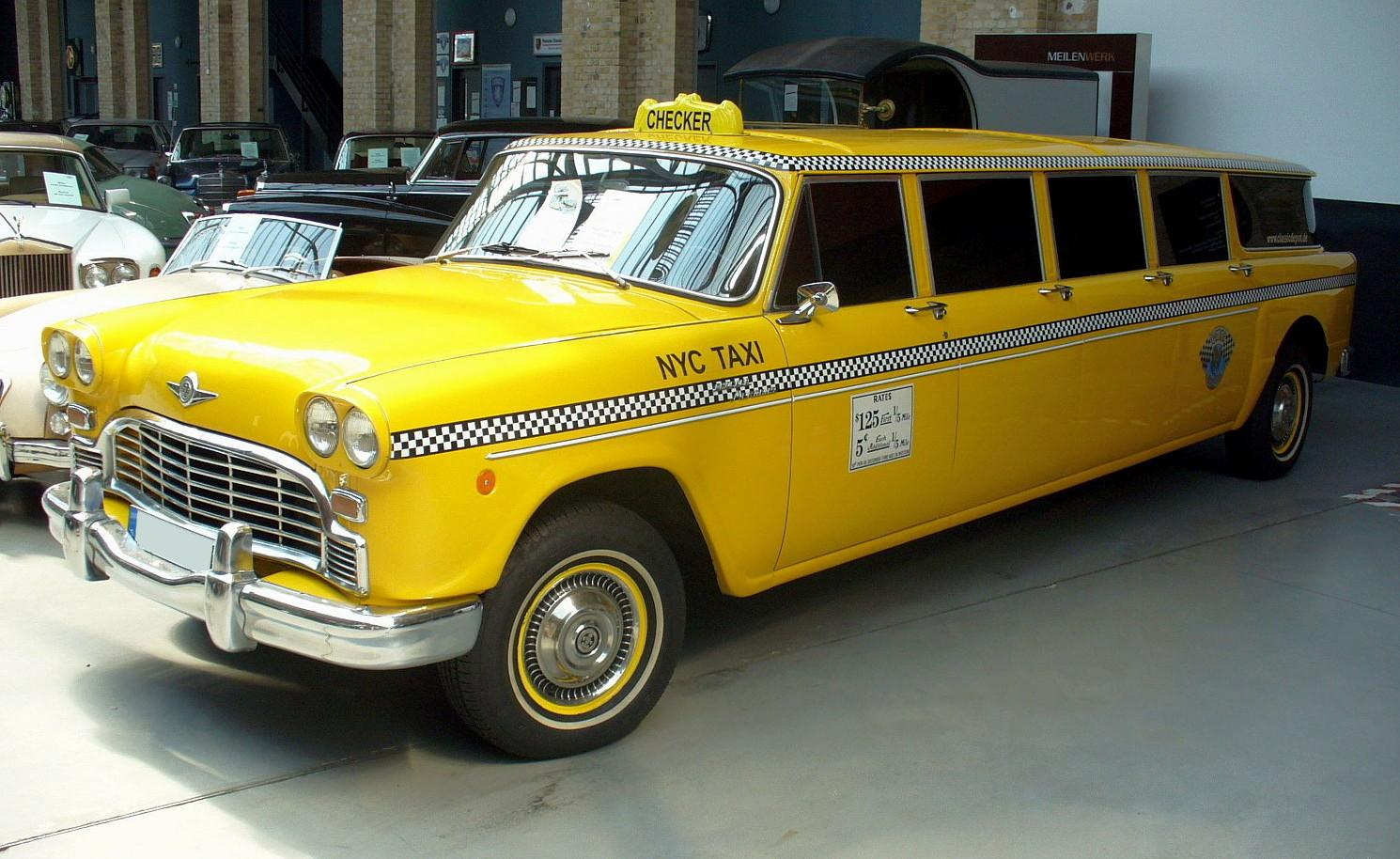 Ca. 1970 Checker Taxi A-11W 8 Aerobus